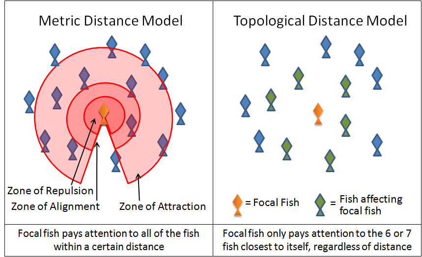 A diagram of the concept of metric distance versus topological distance as applied to schools of fish